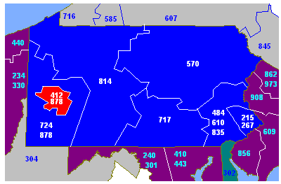 Map of Pennsylvania area codes in blue with A/C 412 in red.